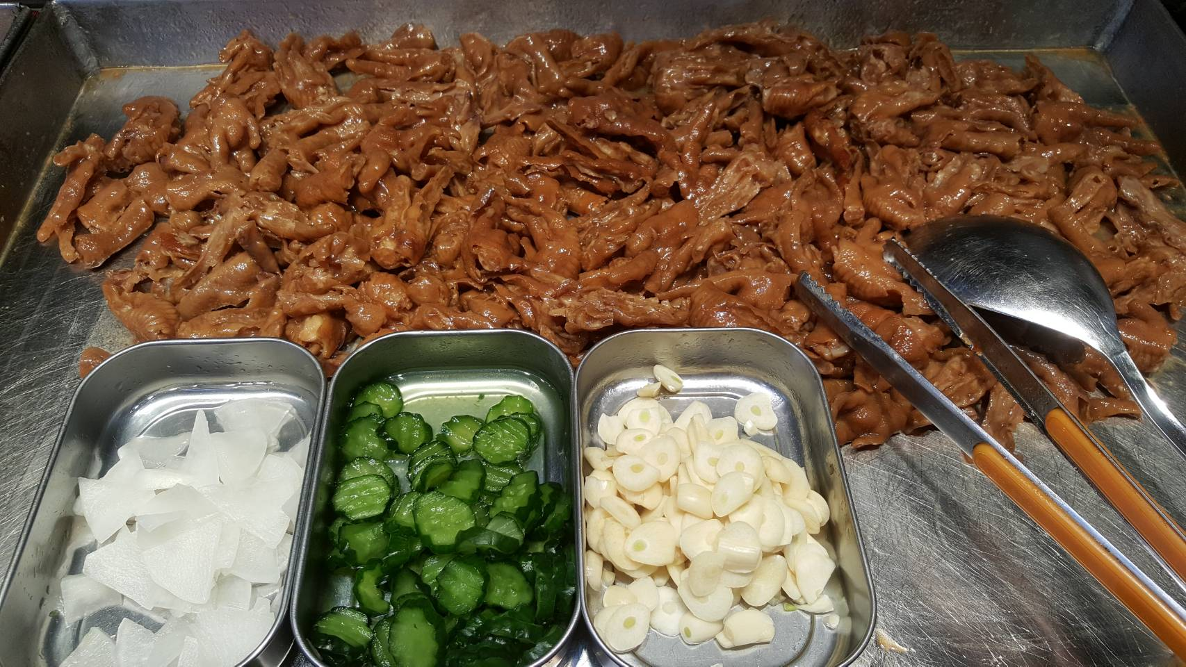 Taiwanese Chicken feet galantine is the famous snack in the world, especially Taiwan Liouhe night market.